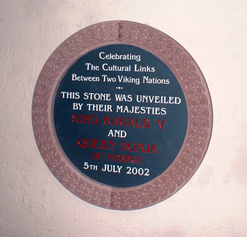 Memorial plate for the king Harald V and queen Sonja of Norway, 2002, within the wall of House of Manannan in Peel, Isle of Man